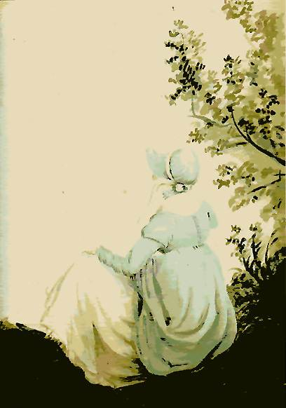 Back View of Jane Austen, Watercolor